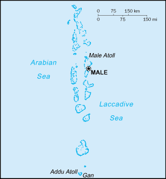 Map of Maldives showing harbors.